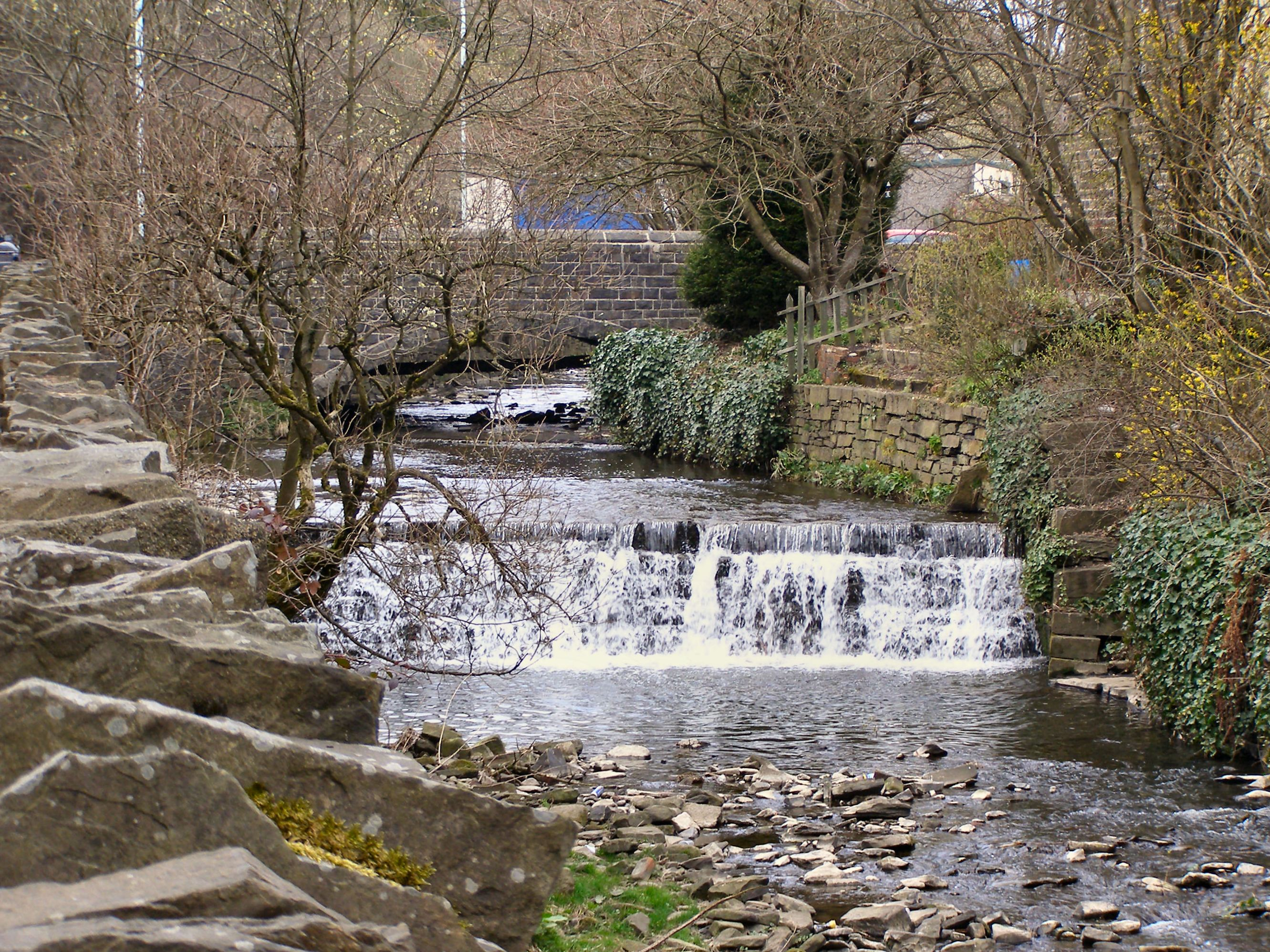 Whitewell Brook - The Bridge at Ashworth Road